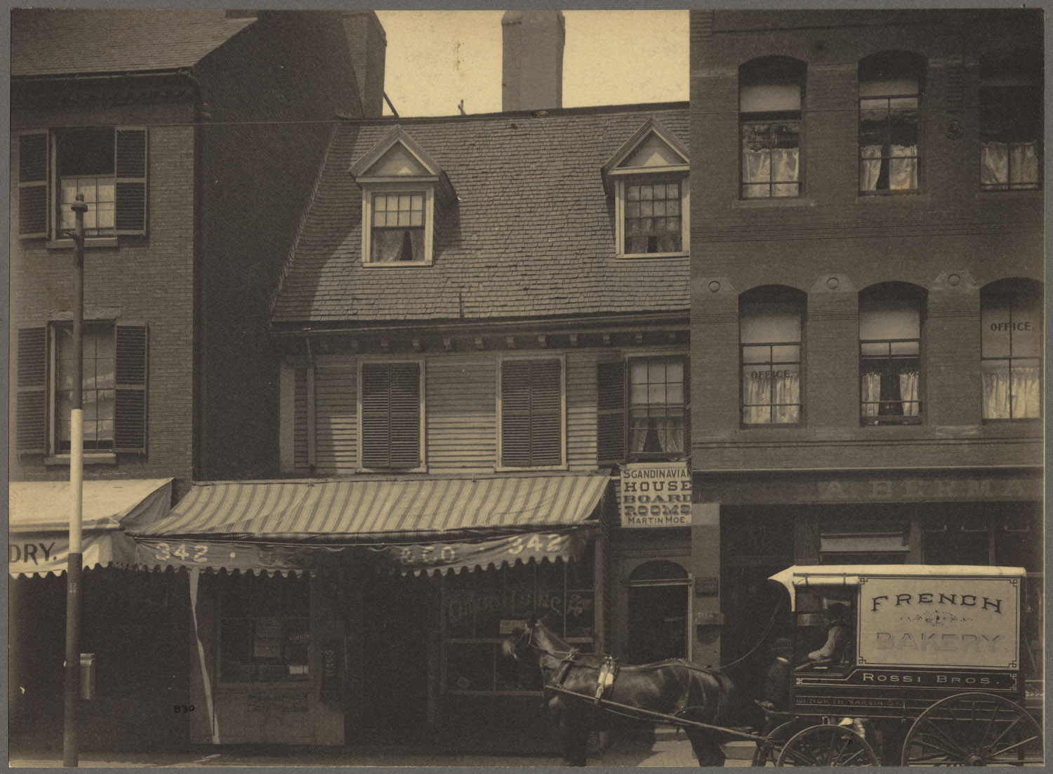 The Mather-Eliot House, near corner of Hanover and North Bennet Streets, Boston MA. 1898 (approximate). Photograph. Built in 1677 by Reverend Increase Mather. Signage indicates site occupied by the Scandinavian House, a boarding house, Martin Moe, proprietor. Address was 342 Hanover Street, North End.